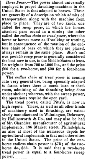 A brief summary from 1844 discussing horse powers (that is, horse engines) used to run thrashing machines and other implements on 19th-century farms.